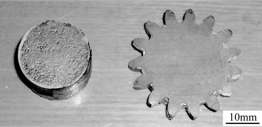 A photograph of a gear with 3.8 mm height forged using nano-structured SiAlON-based ceramic in a graphite die at 1200 °C under the action of an electric field is shown to the right. It is formed in 2 s with an axial pressure of 20 MPa. The billet (shown at left) is cylindrical (diameter 20 mm, height 10 mm).